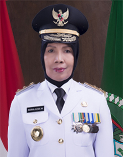 Nurhajizah Marpaung, Vice Governor of North Sumatera